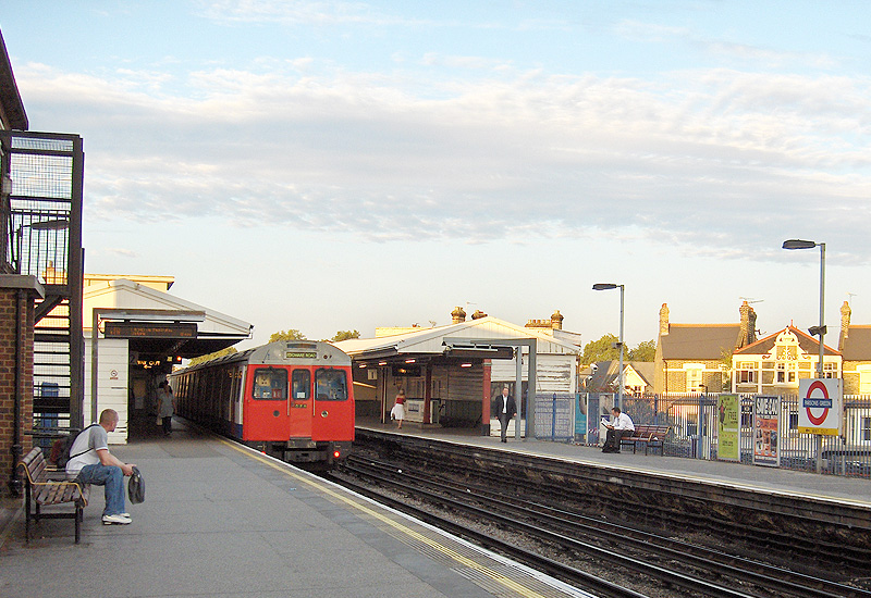 Parsons Green underground station platforms looking northbound (September 2006)